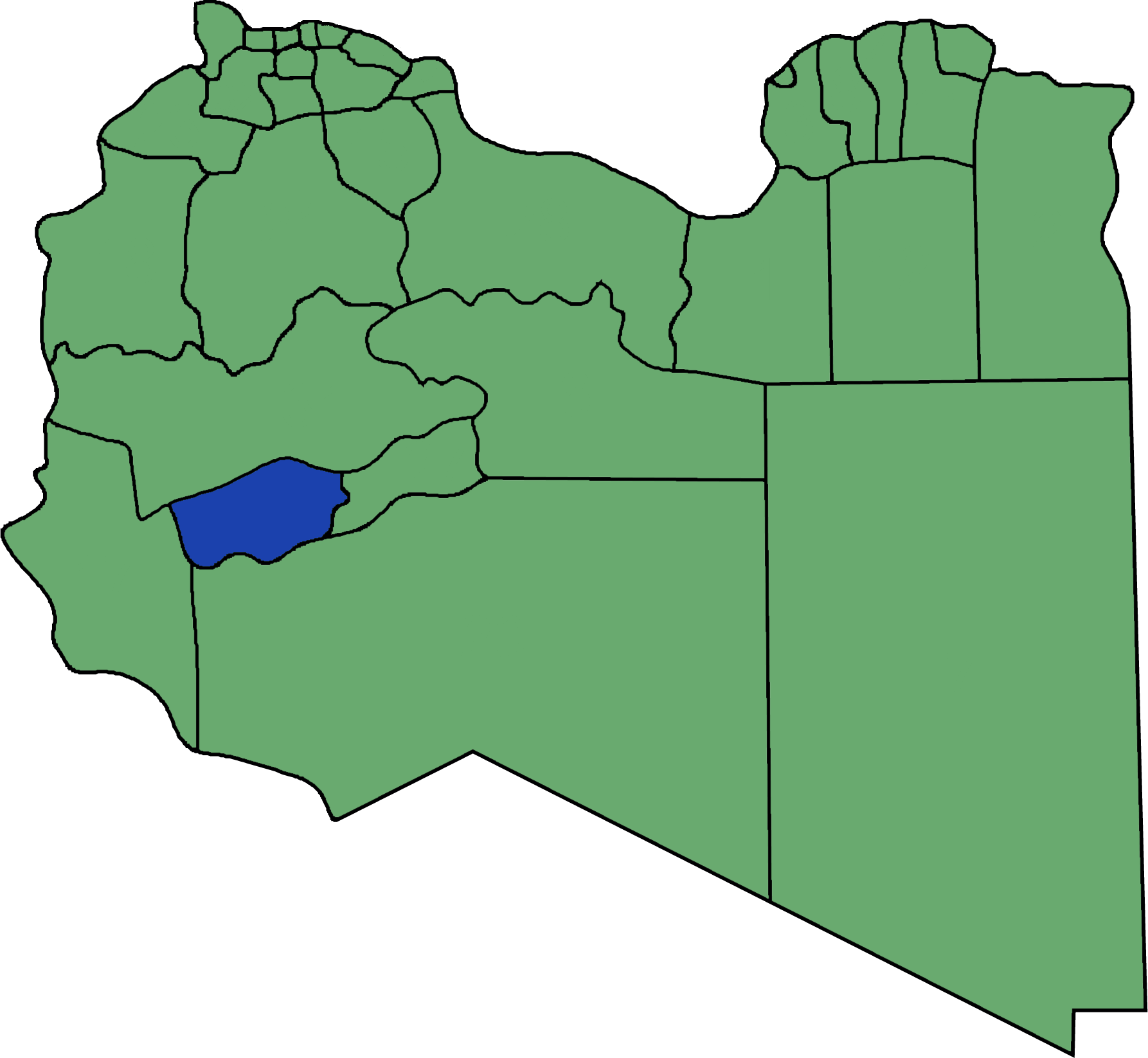 Map of Libya with the former (2001 to 2007) boundaries of the Wadi Al Hayaa District highlighted